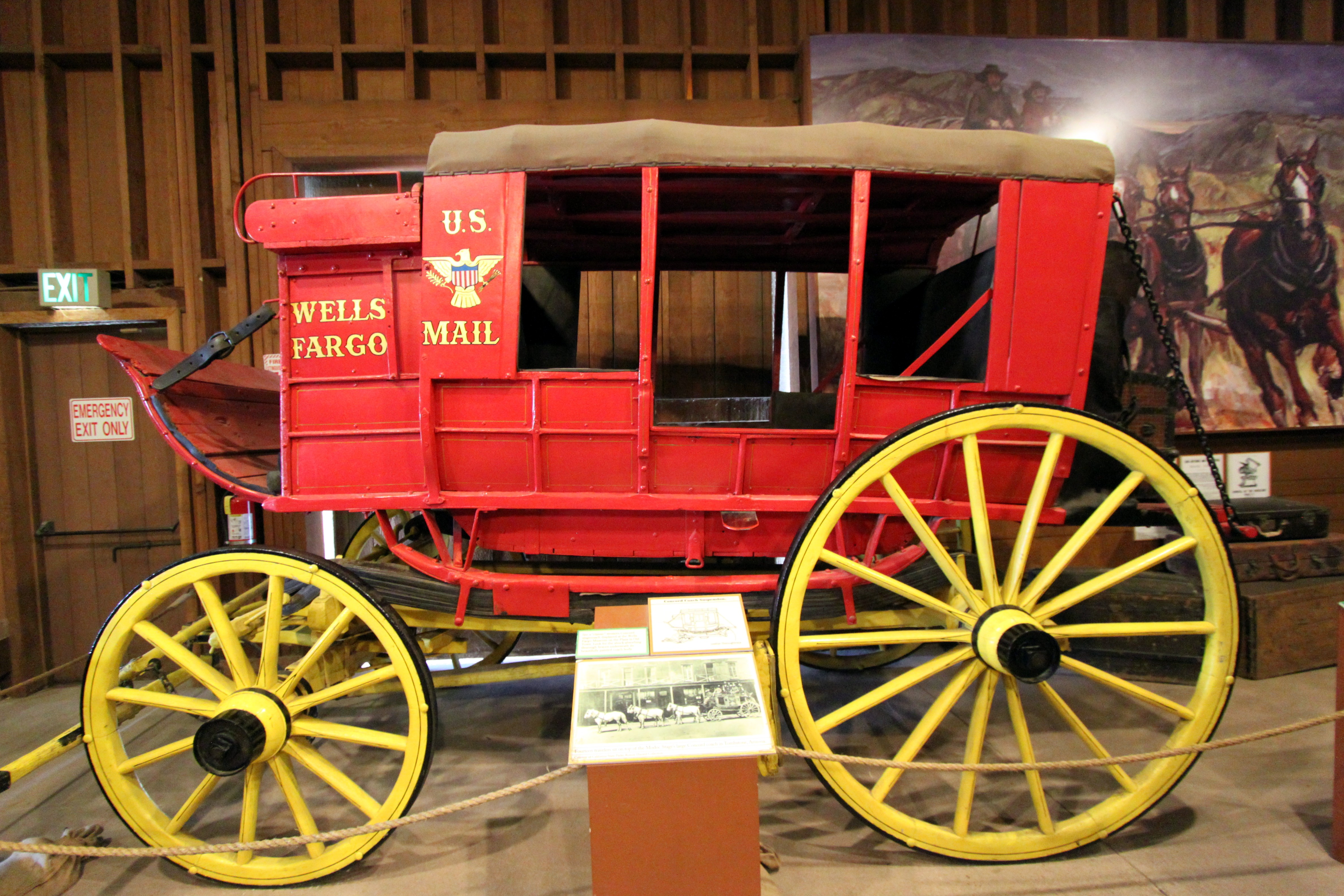 Wells Fargo mud wagonOld Town San Diego, California